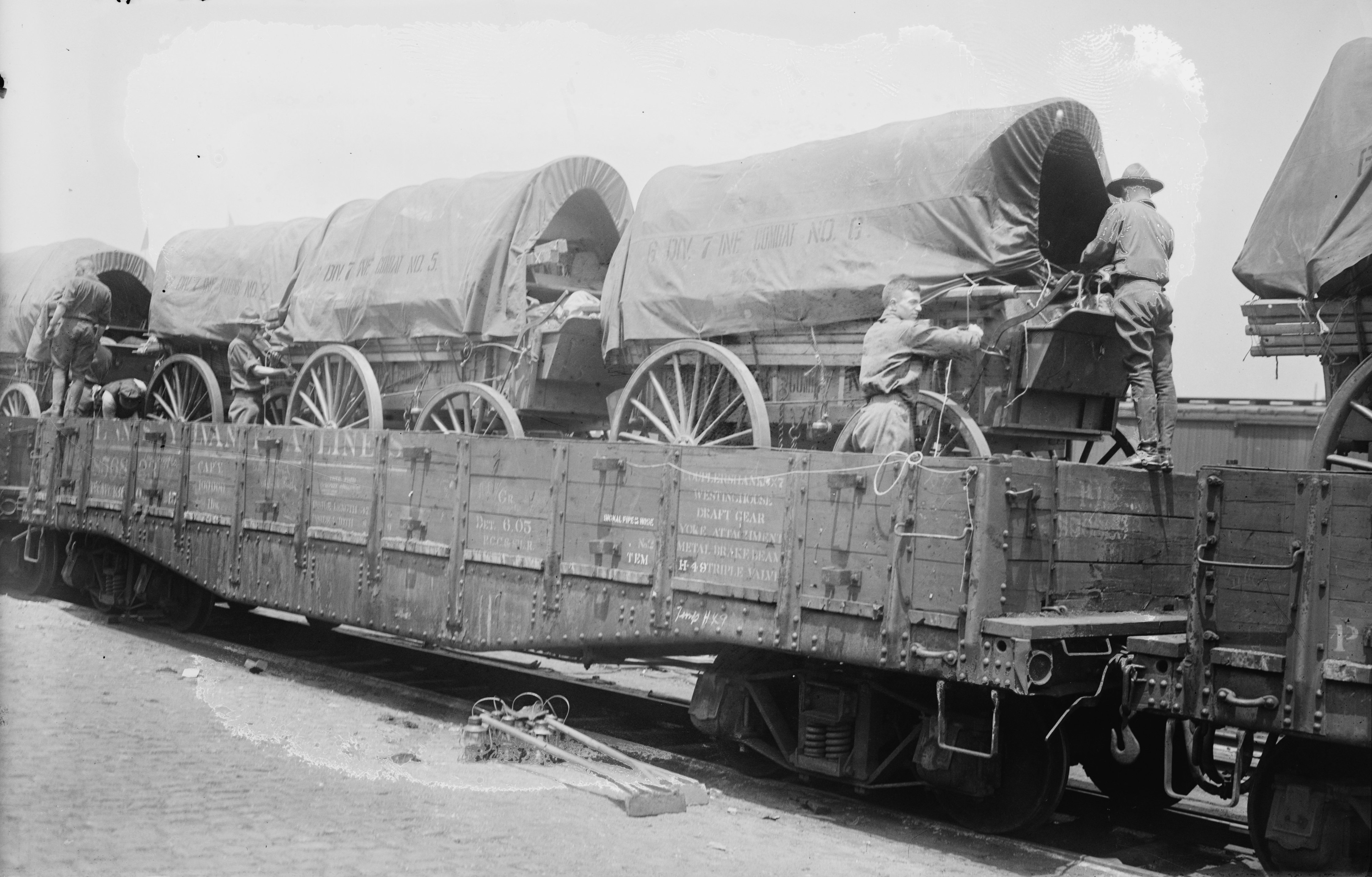 Title: 7th Reg't train Abstract/medium: 1 negative : glass ; 5 x 7 in. or smaller.